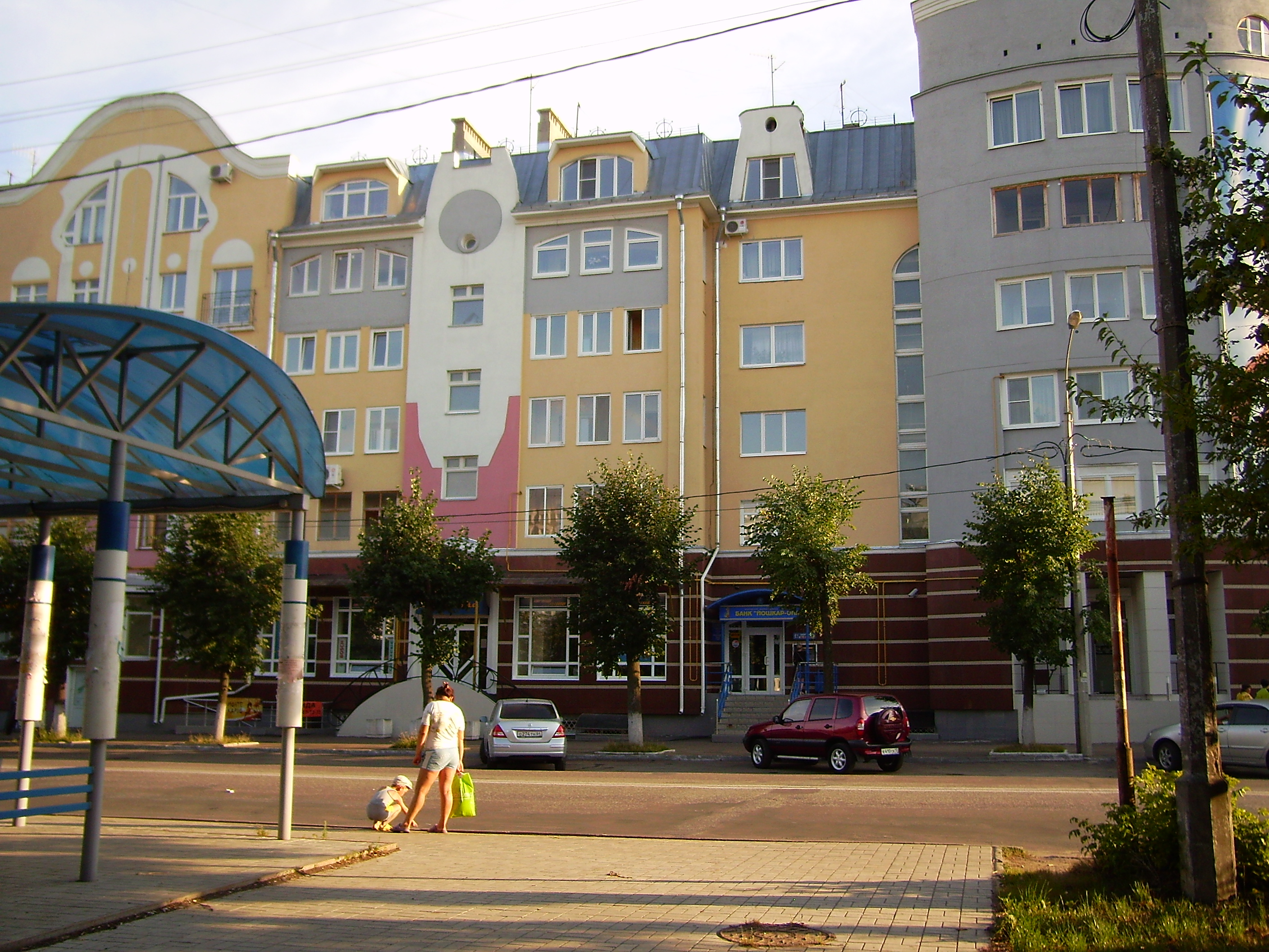 New apartment house in city centre